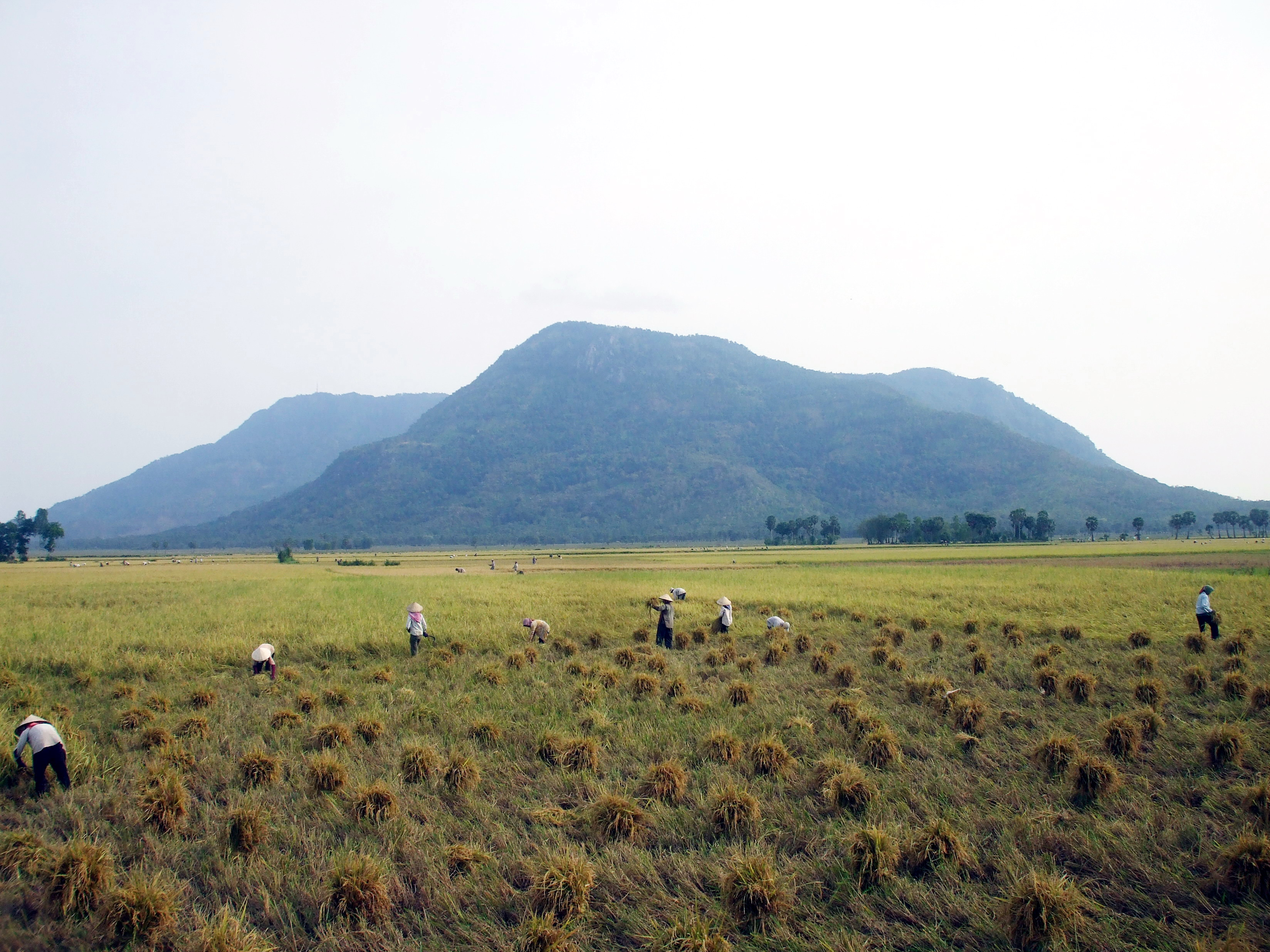 Mount Cấm, Tịnh Biên county, An Giang province, Vietnam